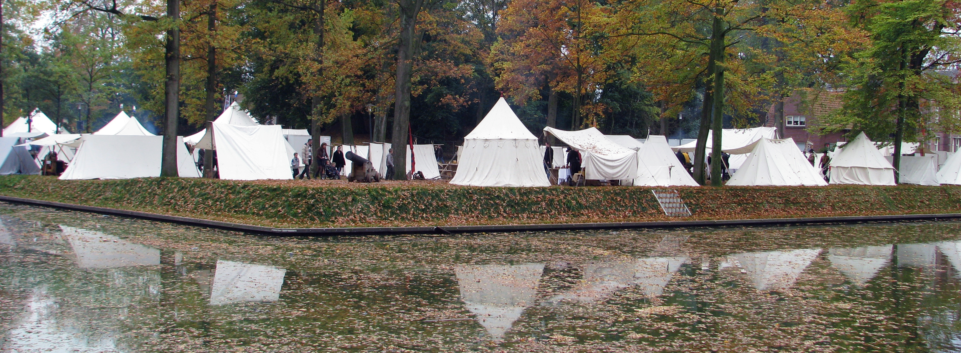 One of the camps for the soldiers who fight in the Slag om Grolle (Groenlo) in 2008. Only traditional cooking, no electricity or heating.